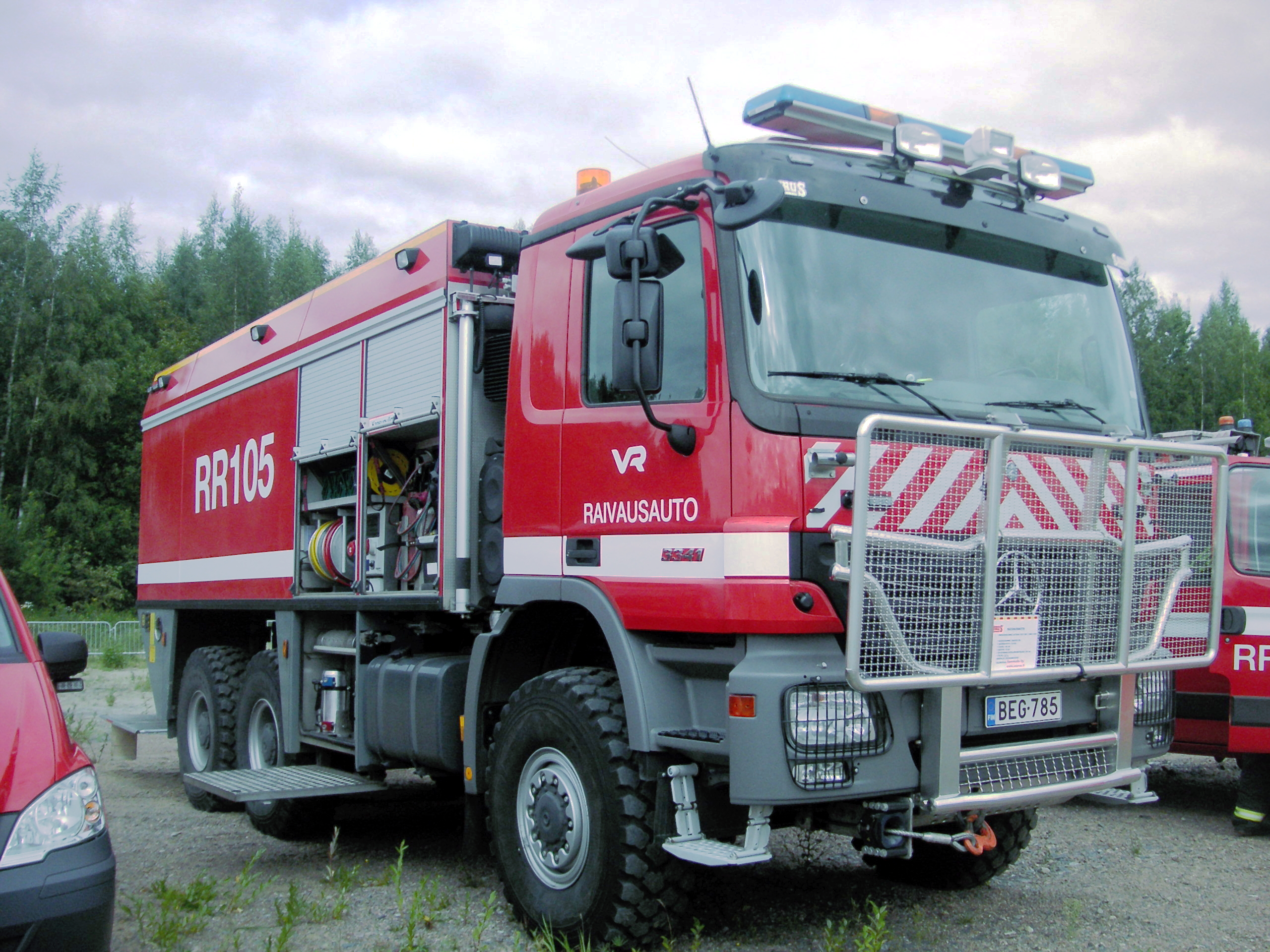 Heavy rescue unit RR 105 owned by VR (Finnish State Railways) at Hyvinkää on August 11, 2012. The vehicle is a Mercedes-Benz Actros 3341 6x6, manufacturer of the body is Saurus.